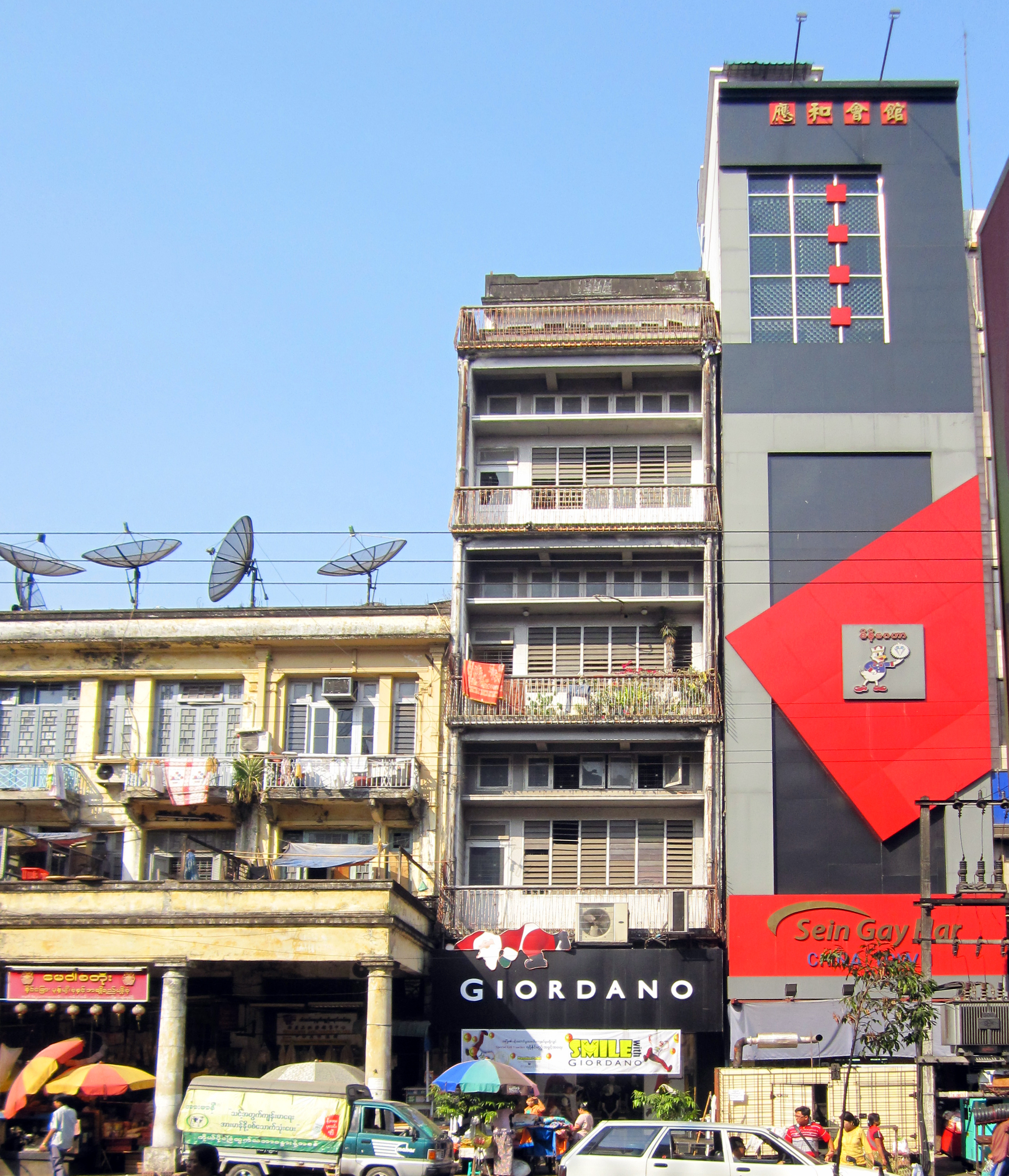 Sein Gay Har, a major Burmese retailer, in Yangon's Chinatown and Ying Fo Fui Kun (應和會館), a Hakka Chinese clan association. မြန်မာဘာသာ: စိန်ဂေဟာ